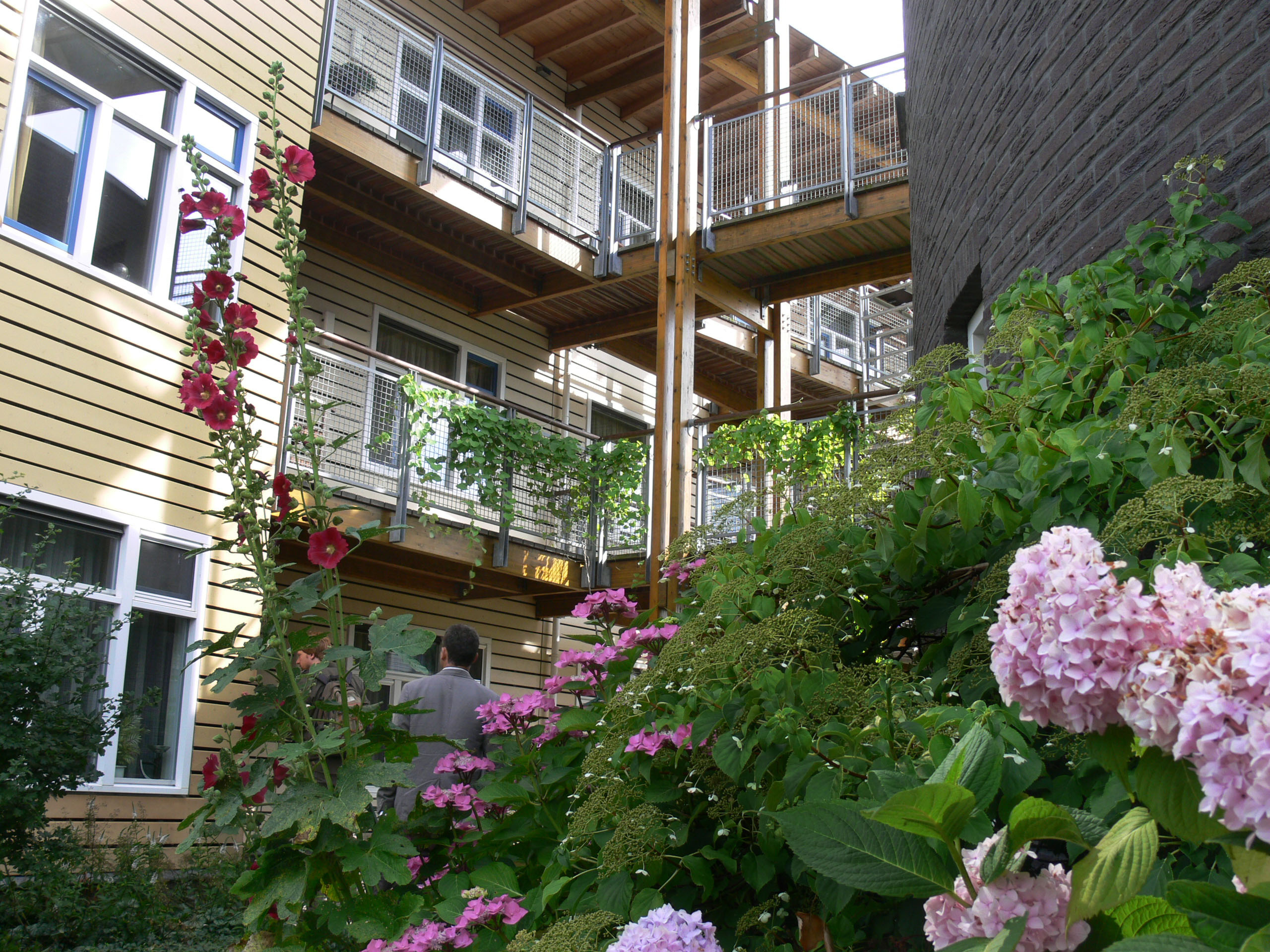 Seniors building, designed by seniors themselves, with the architecte E.V.A. Lanxmeer district (a "green distric" named Lanxmeer, built at Culemborg, The Netherlands), wich is a recent (1994-2009) district (semi-public eco-building) of approximately 250 ecological houses, several offices and a urban farm. The project is based on "Sustainable Implant" with a spatial combinaison of natural systems, technical approach of integrated waste (wastewater) / energy system and écological and social purposes, for an urban neighborhood. The district is in an ecologically sensitive area (former drinking waterextraction and retention area). The conception of this district is based on permaculture, and organic design, a small biogas installation (able to treate black water and organic waste and garden & park waste), a combined Heat Power. Some houses are in closed greenhouse. A semi-public building (the ‘EVA Centre) should yet be made, based on the Living Machine concept.